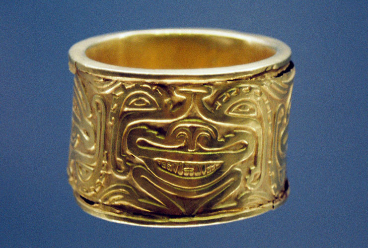 Embossed with broad outlines, the humanized features of a feline form a pattern of inverted figures that alternate along the outer surface of the bracelet. Bracelet Gold A.D. 150 - A.D. 900 Río Chiquito, Páez, Cauca Tierradentro 5,4 x 8 cm Reference: Museo del Oro, Bogotá